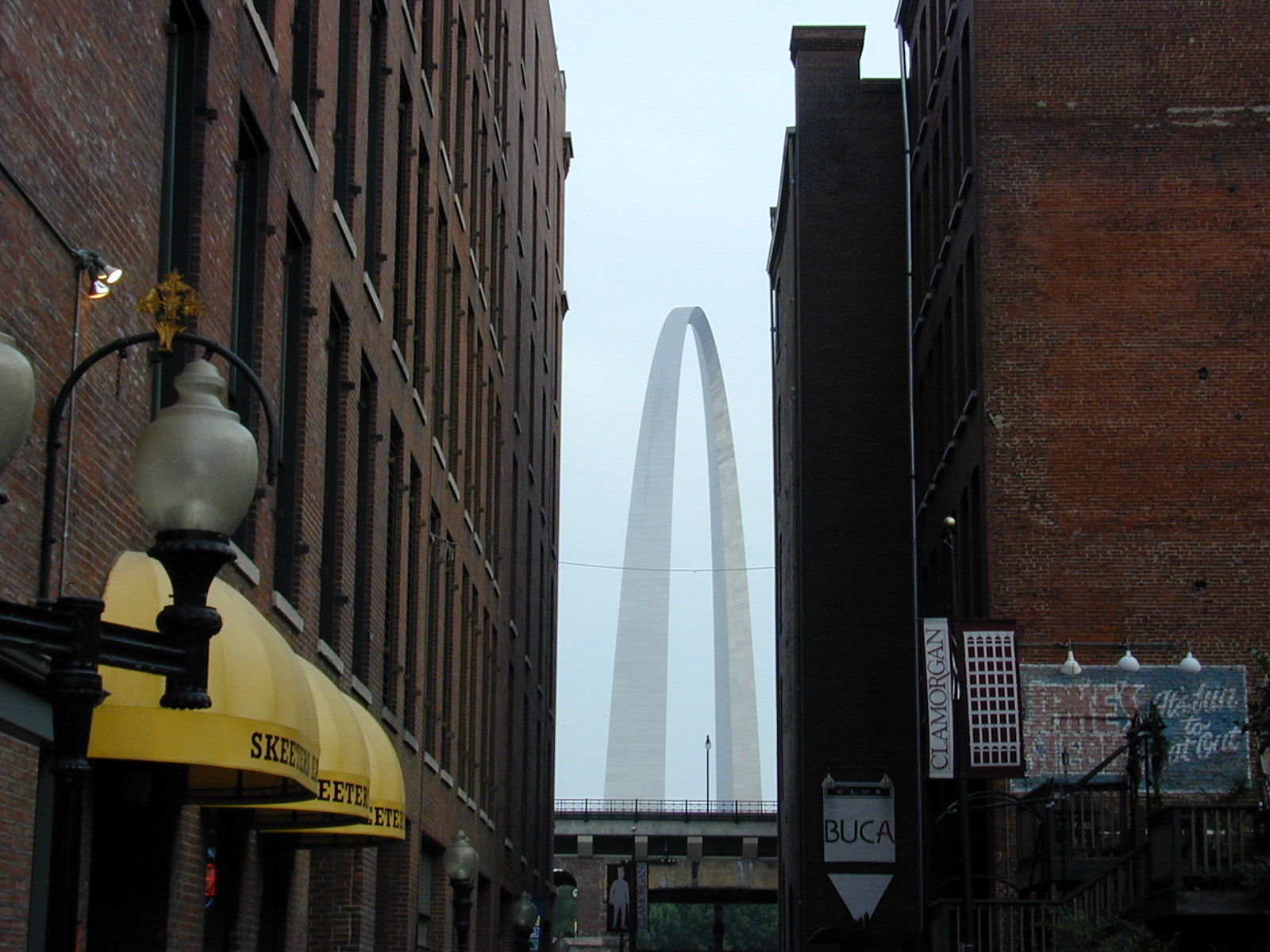 St. Louis: Gateway Arch Jan Kronsell, July 2004